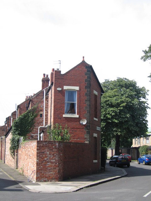 Buston Terrace, Jesmond, Newcastle Upon Tyne. Typical terrace in this area.